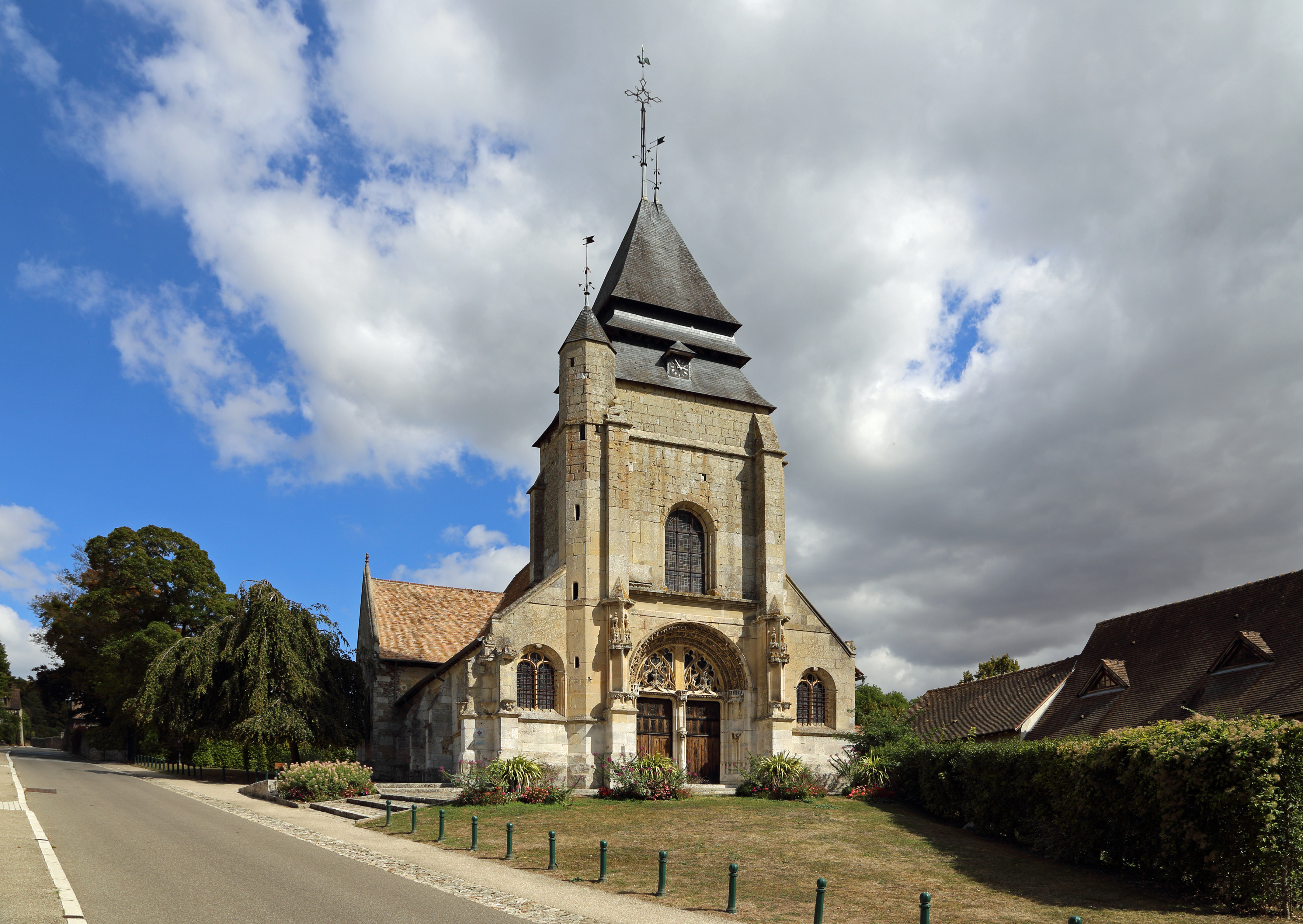 Ménilles (Eure department, France): Saint Peter and Saint Paul church .